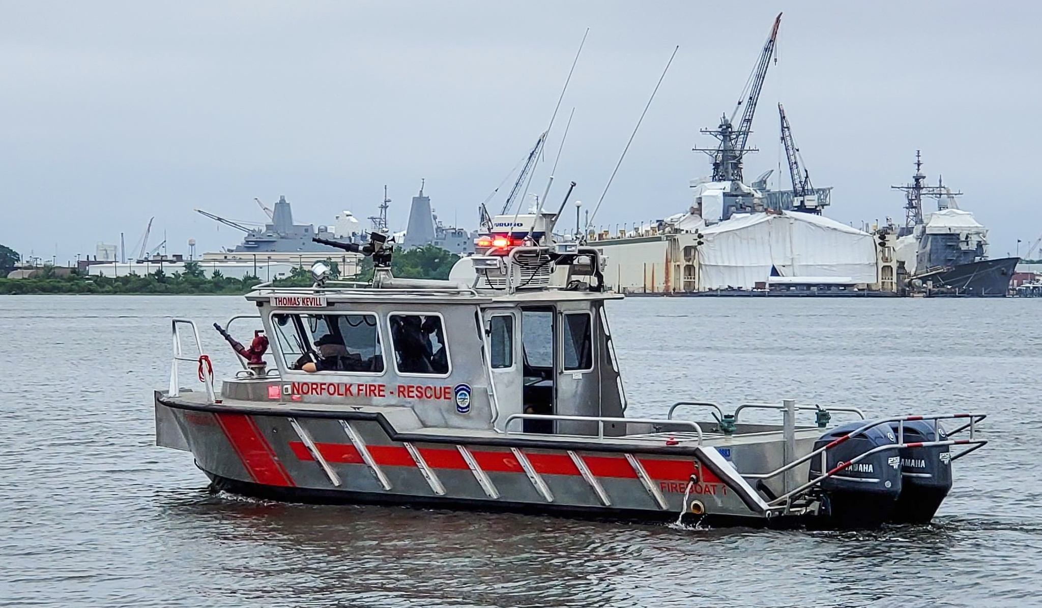 Photo: Monica E. Del Coro Norfolk Harborfest June 8, 2019 TDelCoro